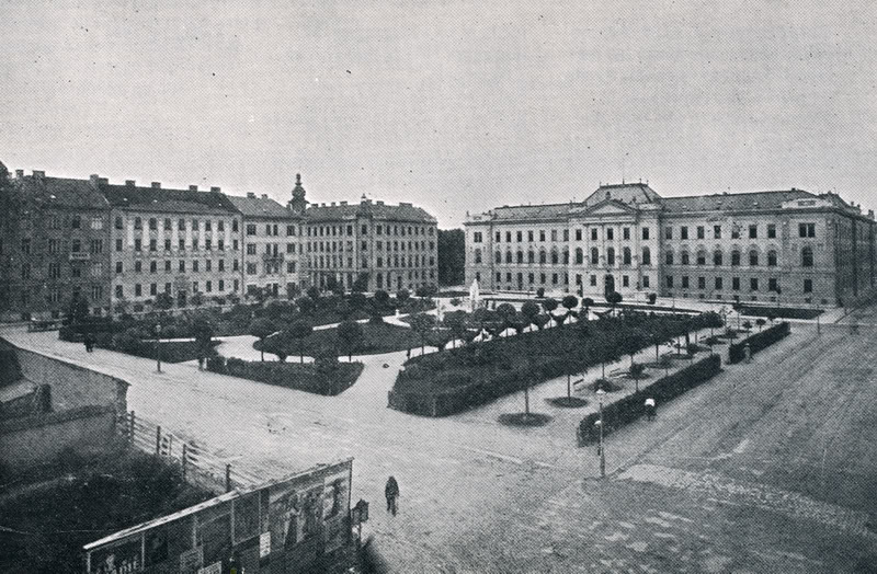 Slovenski trg in Ljubljana in 1908.